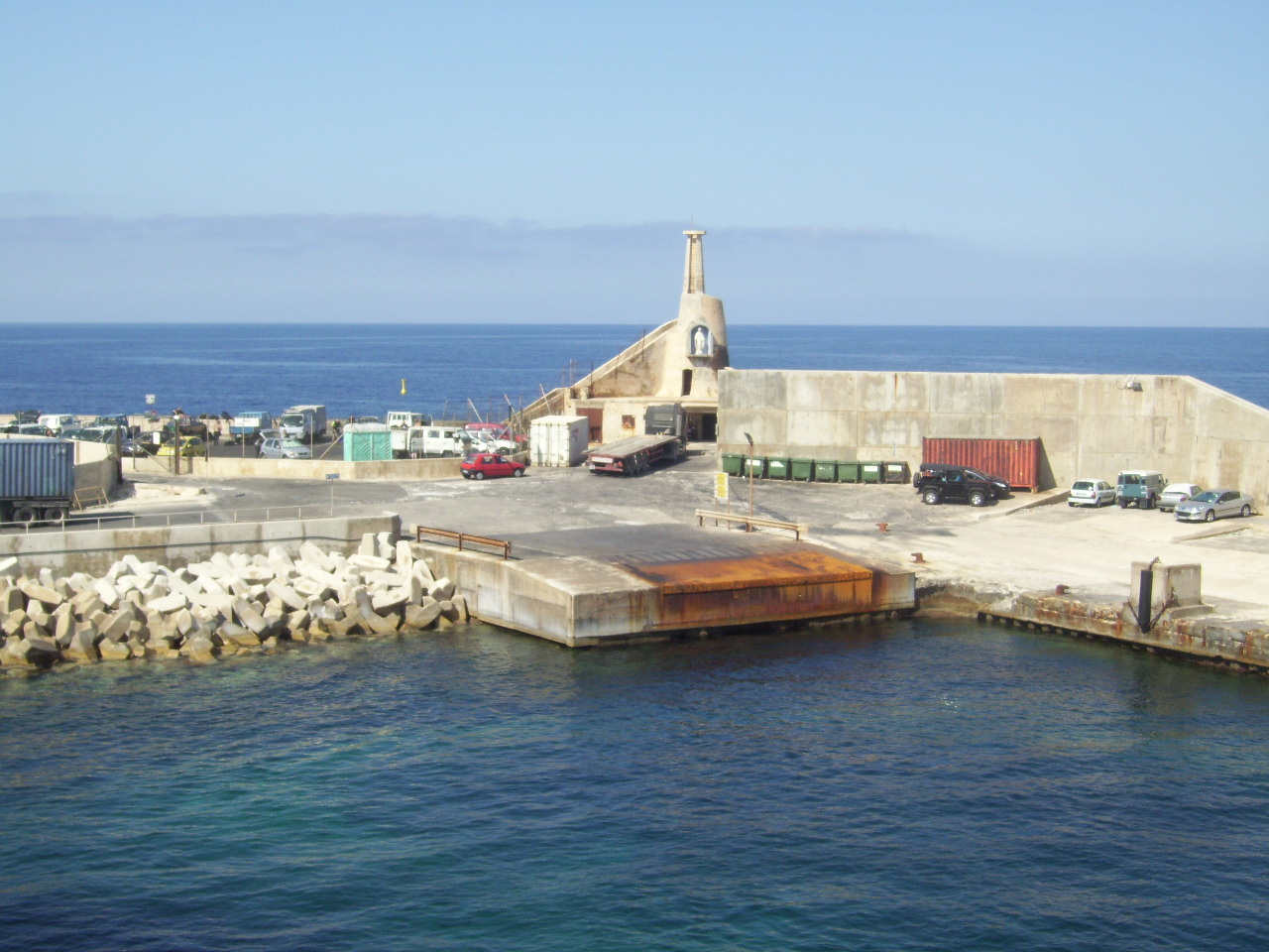 The harbor of Cirkewwa